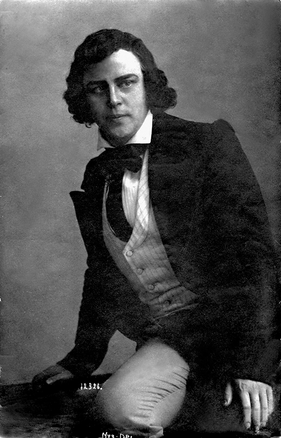 N. N. Rozhdestvensky playing Lensky, 1926, 43 years old.